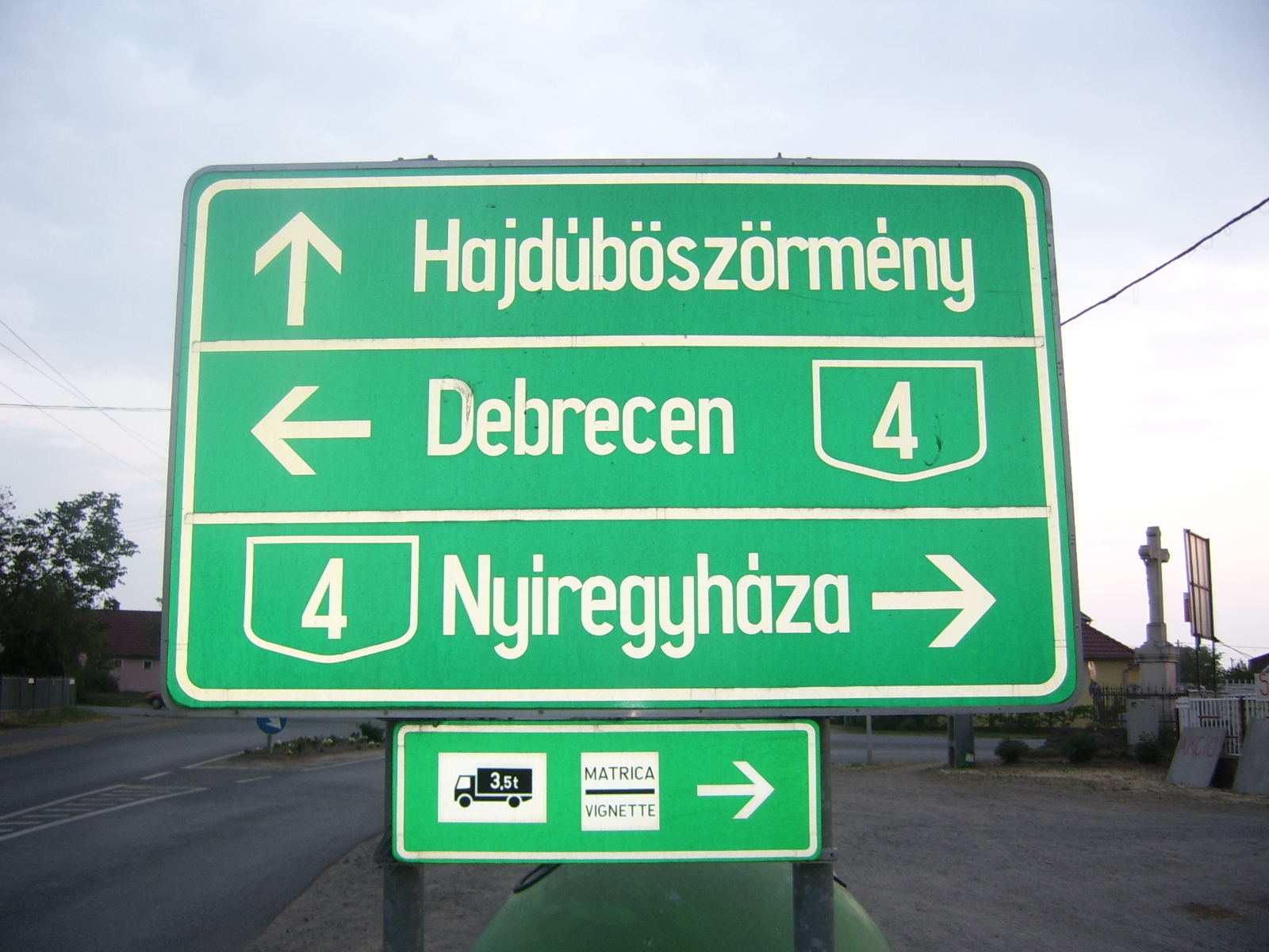 Direction sign at a crossing of National Highway 4 in Hungary